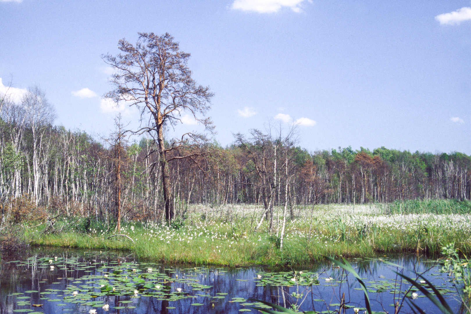 Torfy Lake [Lake Peats], a mire (peatland) in the northern part, cottongrass, European white water-lily. Aleksandrów, Wawer, Warsaw, Poland. This is a photography of protected area with CRFOP ID PL.ZIPOP.1393.PK.72